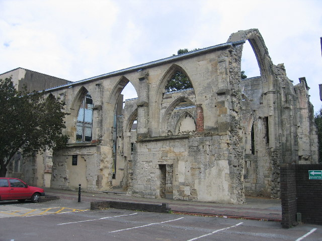 Greyfriars, Gloucester. This was the house of the order of Friars minore (Franciscans or Greyfriars) which was founded c1231 by Thomas, Lord Berkeley. The present remains are the 16th century rebuilding of the nave and north aisle. After the Dissolution the church was converted into tenements and workshops. The west end was rebuilt in the 18th century with a fine facade facing Mary de Crypt. Nothing remains of the conventual buildings which lay to the south of the church. Today the remains are in the care of English Heritage.